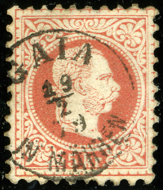 Austrian KK 5 kreuzer stamp, cancelled GAIA IN MÄHREN in 1879 (Moravia)